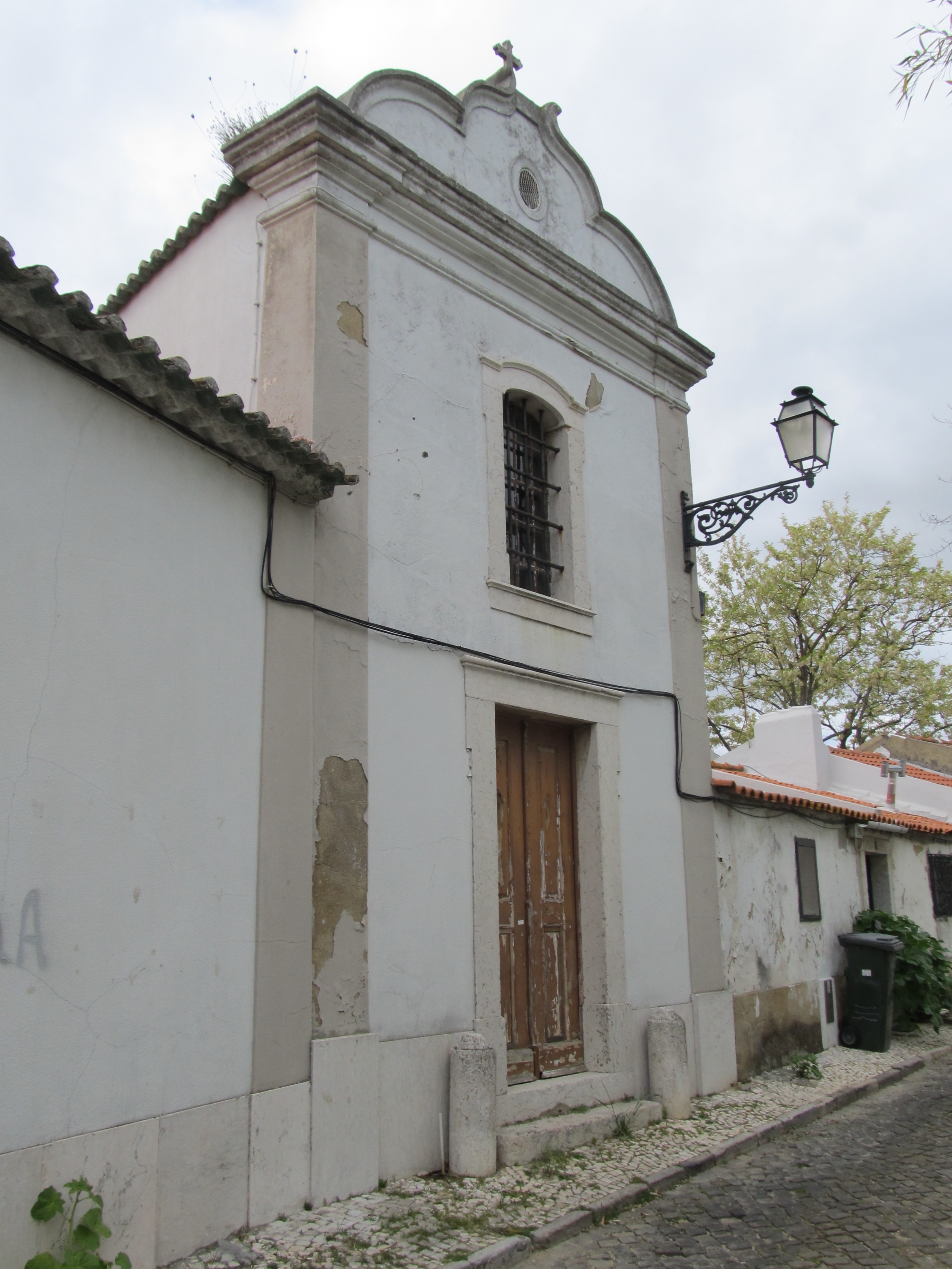 Church at Quinta de Sant'Ana